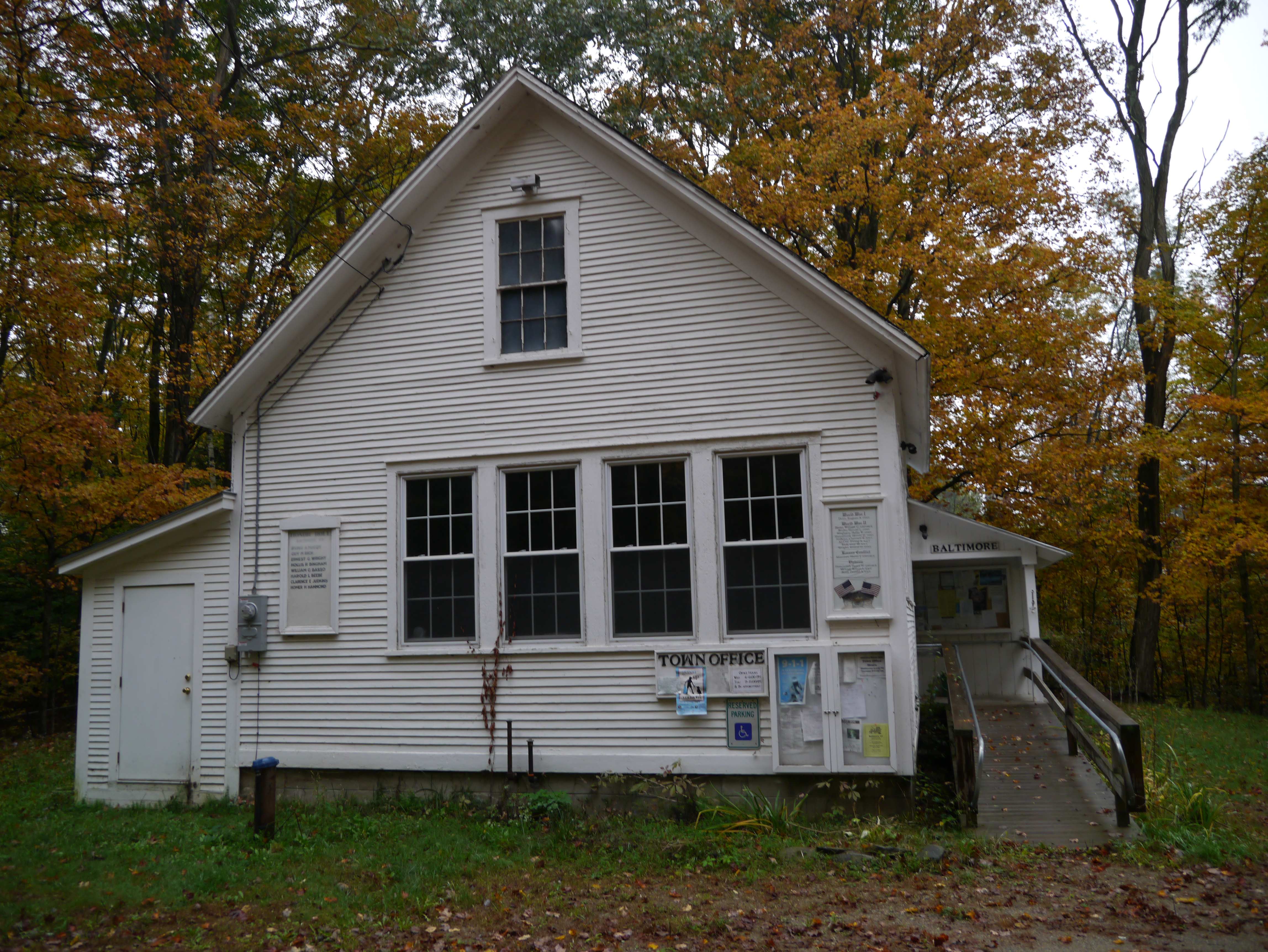 Taken 3 October 2012